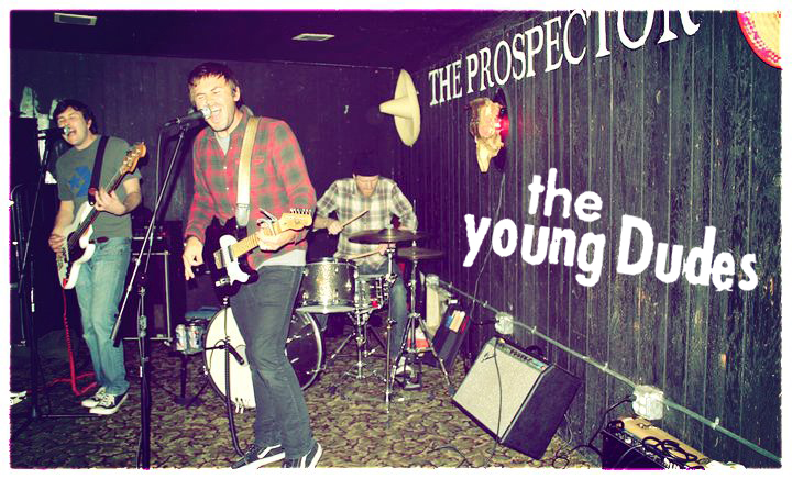 the Young Dudes playing at the Prospector in Long Beach, CA on December 18, 2010